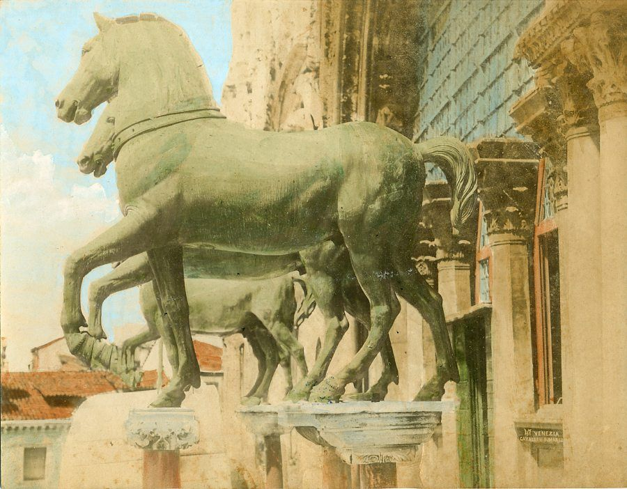 Carlo Naya (1822-1881) - "Venice. Sain Mark's horses". Catalogue # 47. Hand-colorised photograph. Uncolorised original by Naya. The same image, colorised. The horses, today.